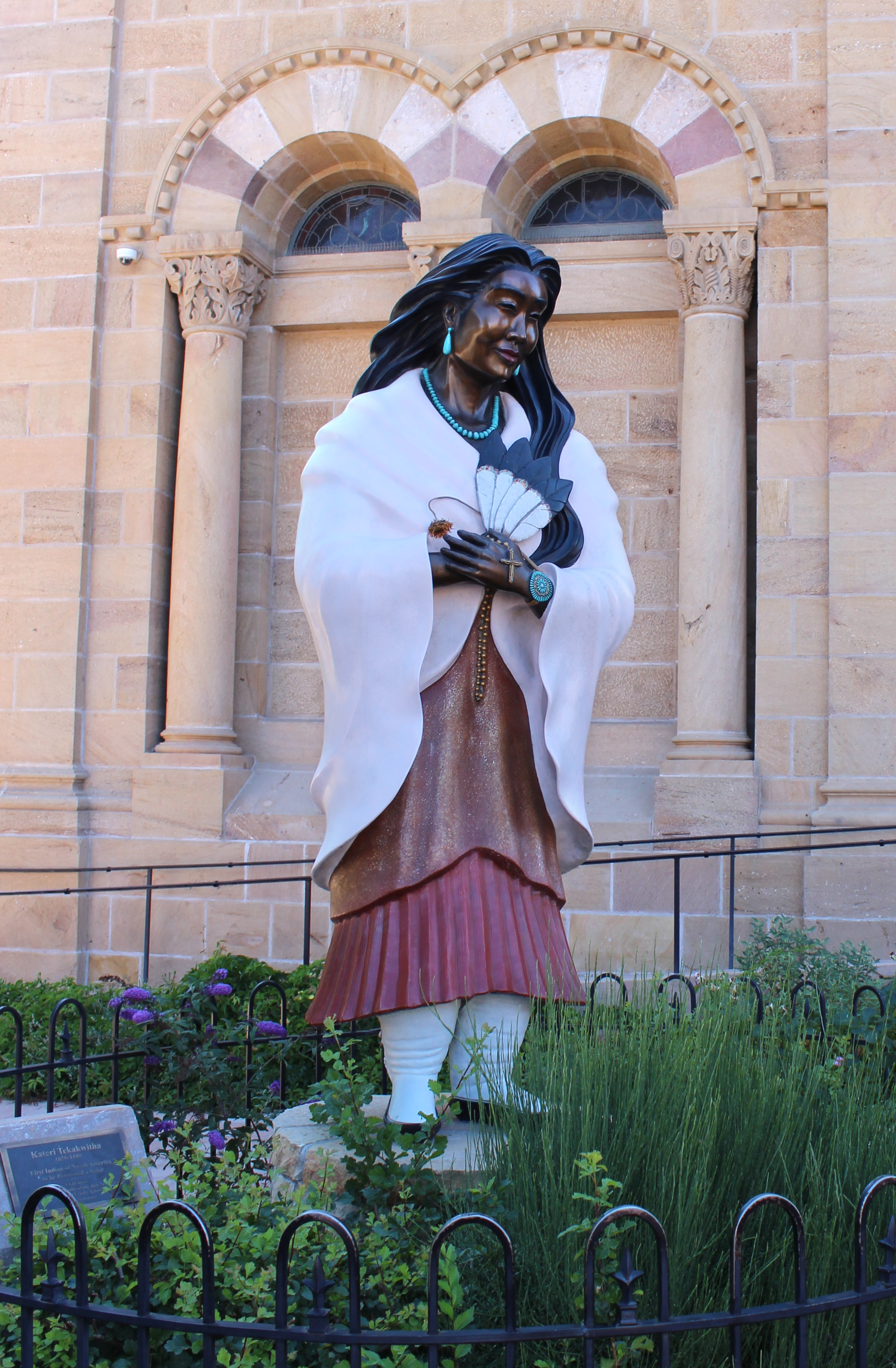 Santa Fe, New Mexico, USA